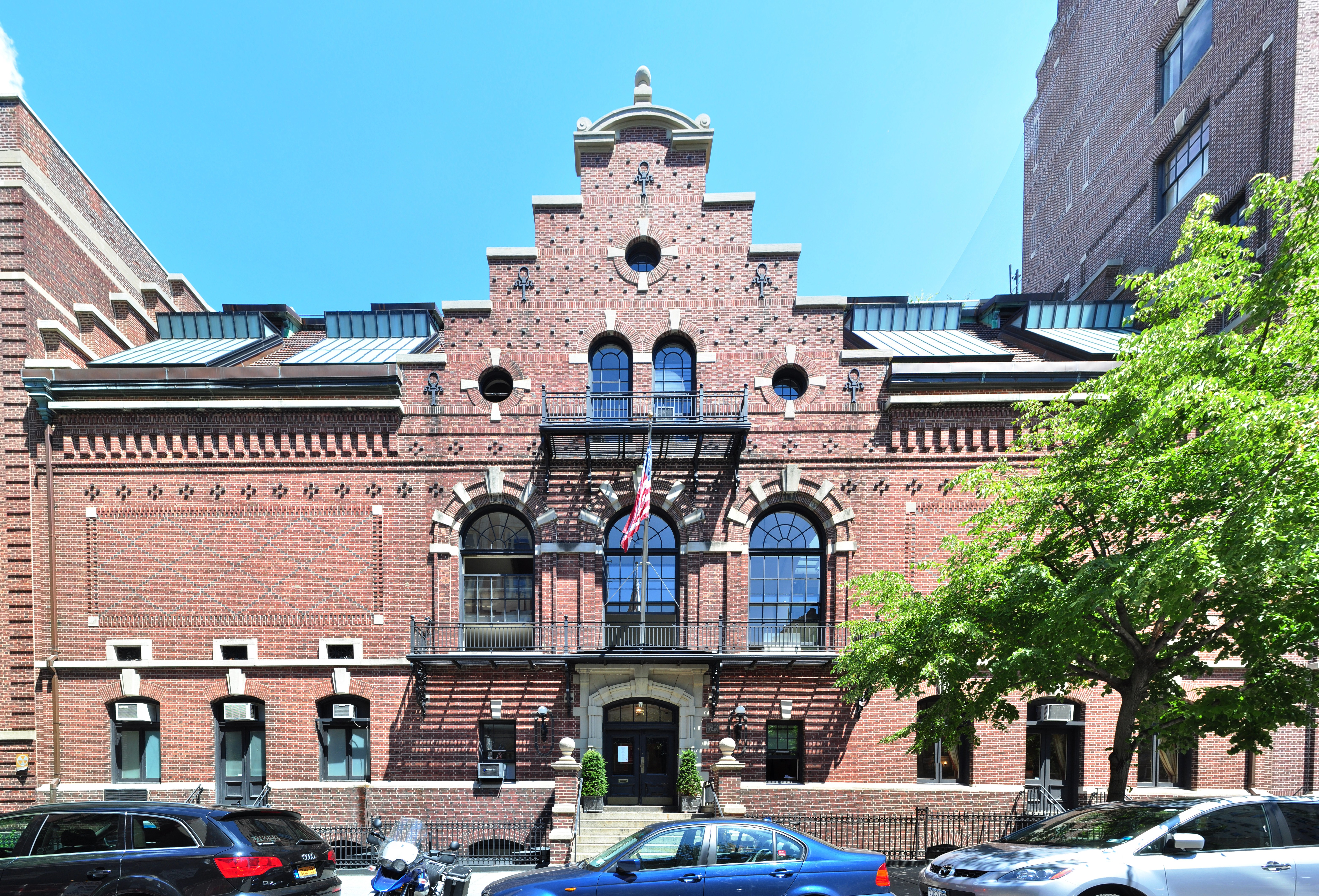 Heights Casino, 75 Montague Street, Brooklyn Heights, Brooklyn, New York. This image was created with Hugin